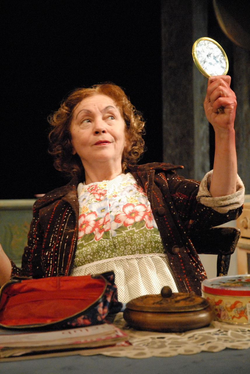 "The Beauty Queen of Leenane" by Martin McDonagh; directed by Boris Isaković, Drama of the SNT; Novi Sad, 2008/09; Ksenija Martinov Pavlović Srpski (latinica): "Lepotica Linejina", Martina Mekdone u režiji Borisa Isakovića; Drama SNP-a, Novi Sad, 2008-2009; Ksenija Martinov Pavlović Српски (ћирилица): "Лепотица Линејина", Мартина Мекдоне у режији Бориса Исаковића; Драма СНП-а, Нови Сад, 2008-2009; Ксенија Мартинов Павловић